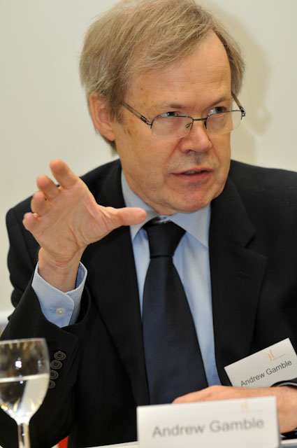 English academic Andrew Gamble (425x640 px, 66,672 bytes)Andrew Gamble, Professor of Politics at the University of Cambridge